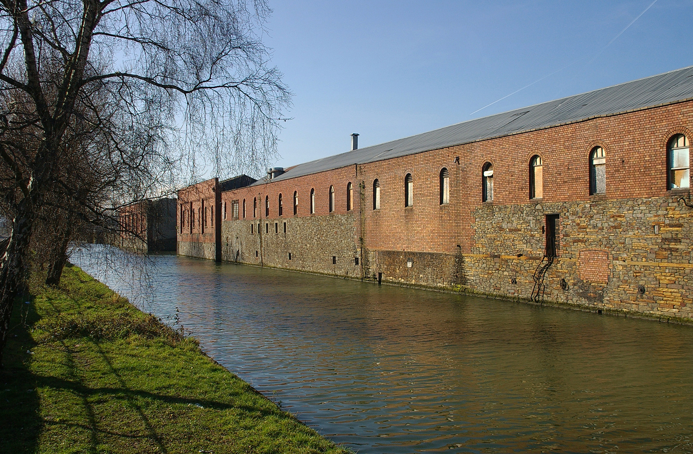 Old industrial buildings by the Feeder Canal in Bristol.